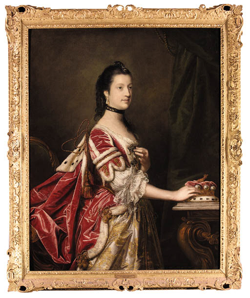 Elizabeth Percy as suo jure Baroness Percy, in coronation robes and with the coronet of a baroness